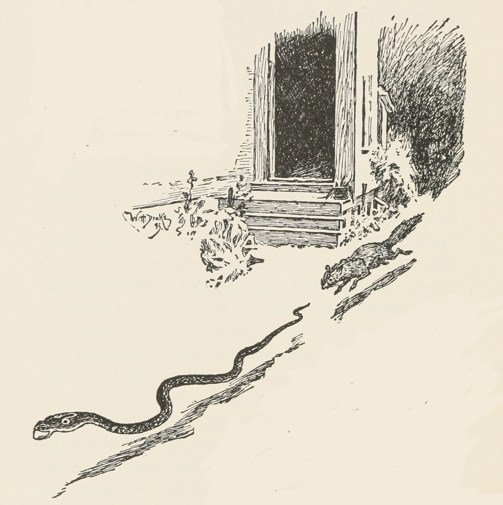 "Nagaina flew down the path, with Rikki-Tikki behind her"